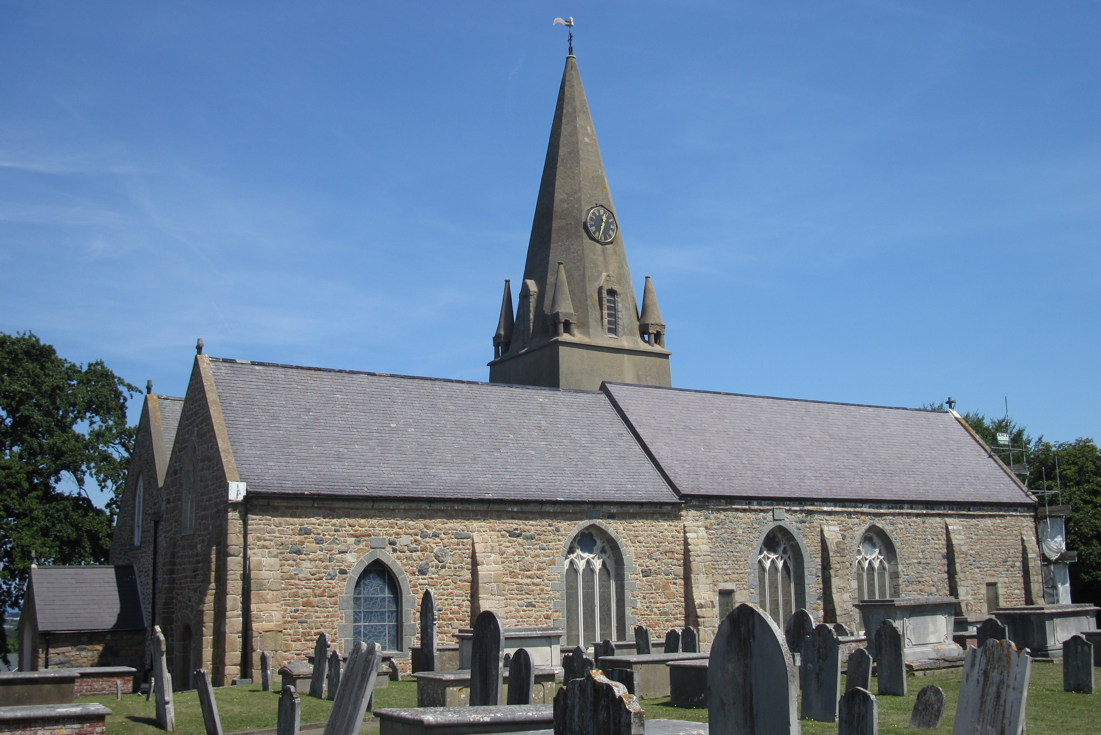 Guernsey, July 2011